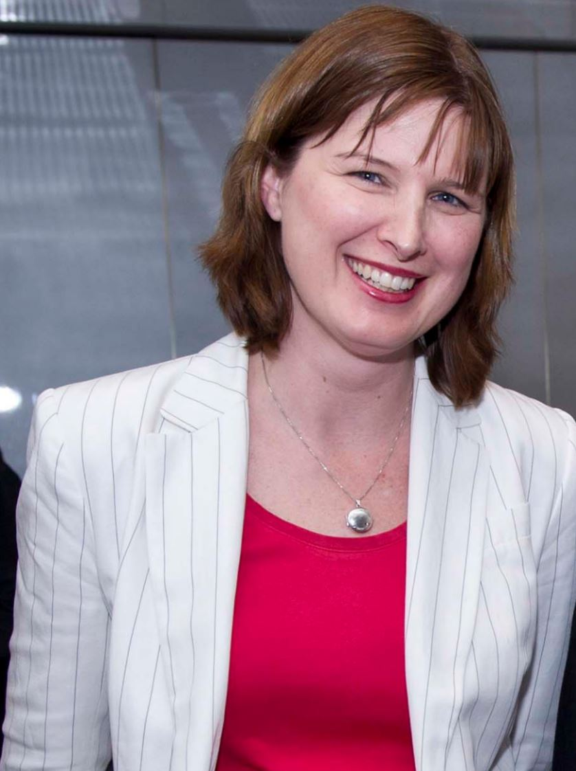 Cropped photo of Australian Minister for the Status of Women Julie Collins meeting with Michelle Bachelet in August 2012